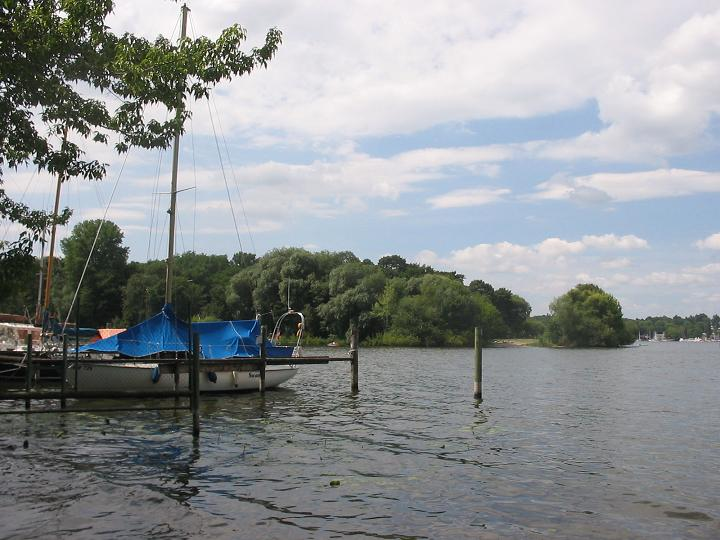 View from the Yacht club over the Jürgenlanke to the Schildhorn. Schildhorn (german for: shieldhorn) is a headland in the river Havel, situated in the protected area Grunewald in the homonymous quarter Grunewald of Berlins borough Charlottenburg-Wilmersdorf, Germany.